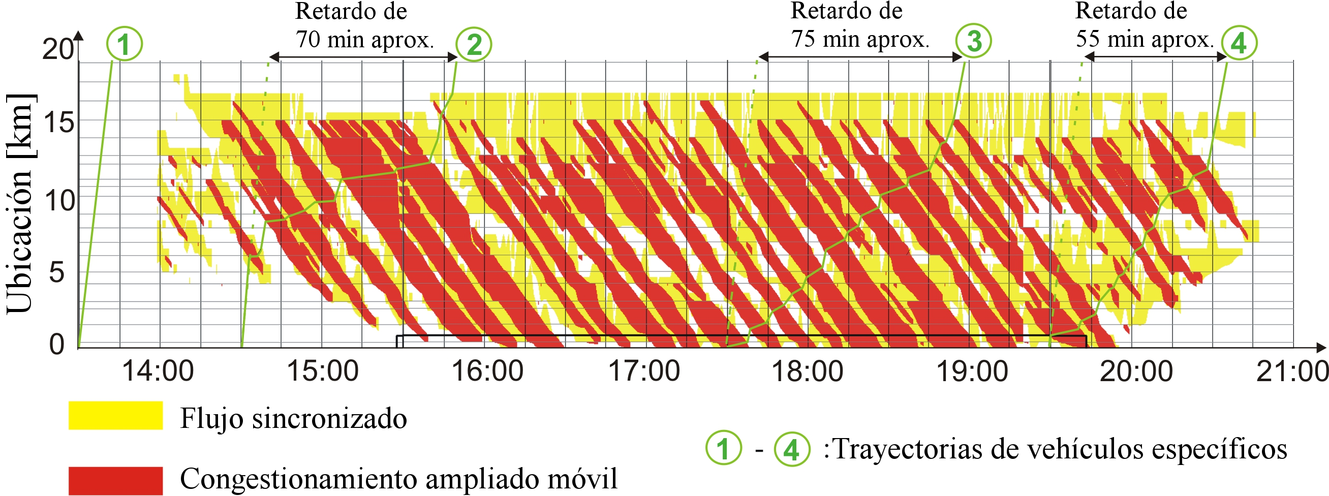 ASDA Traveltime